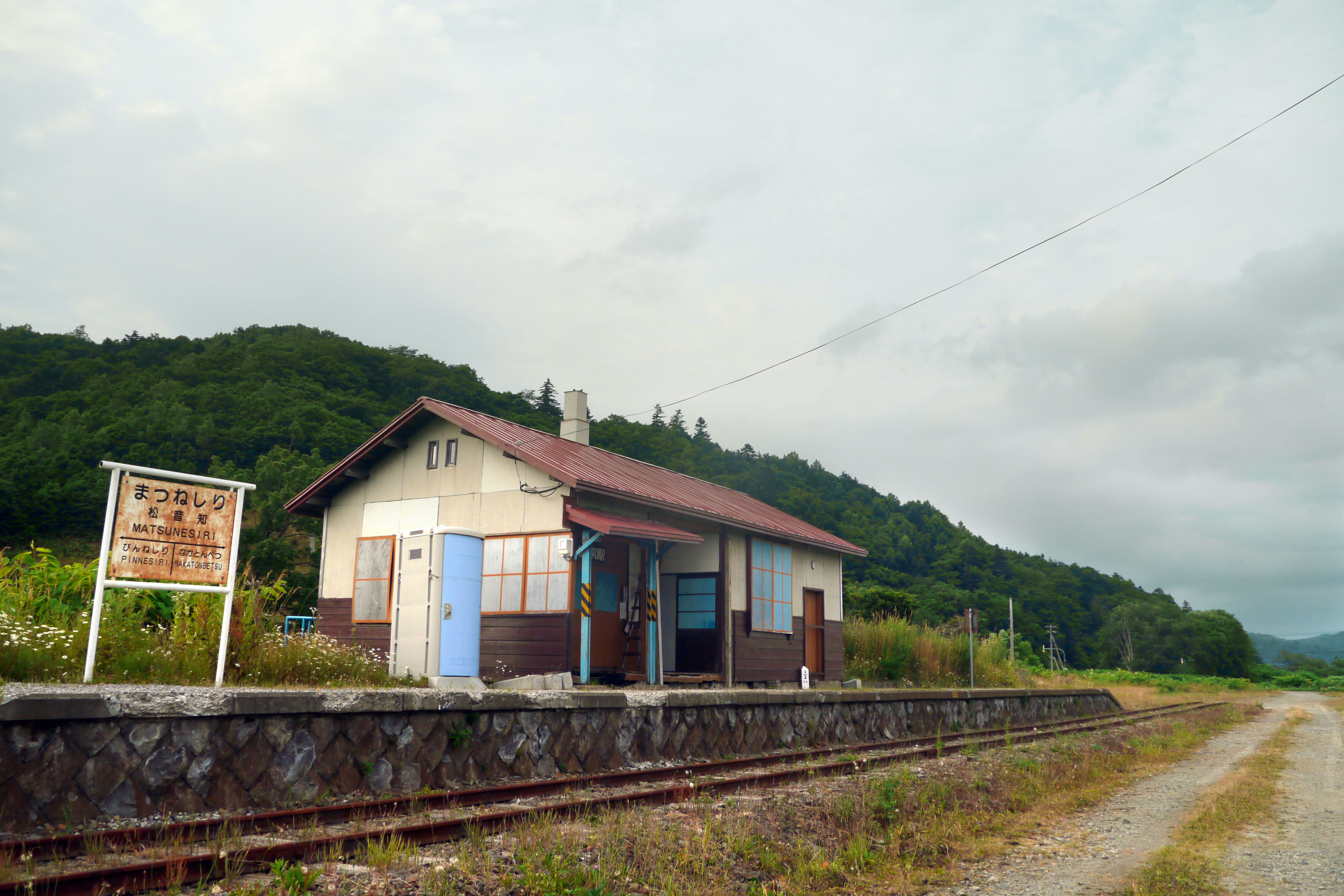 Remains of Matsuneshiri Station of the Tenpoku Line in Hokkaido, Japan. Photo taken on August 5, 2011.